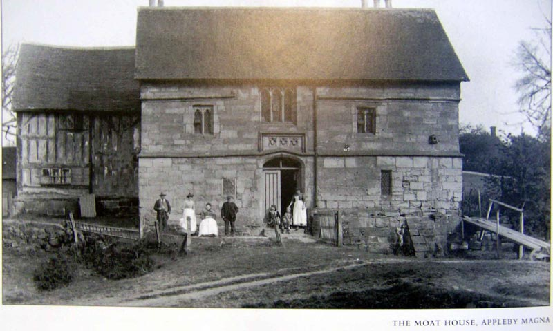 A Photograph of the Gothard Family standing outside their home: the Moat House in Appleby Magna, Leicestershire, UK